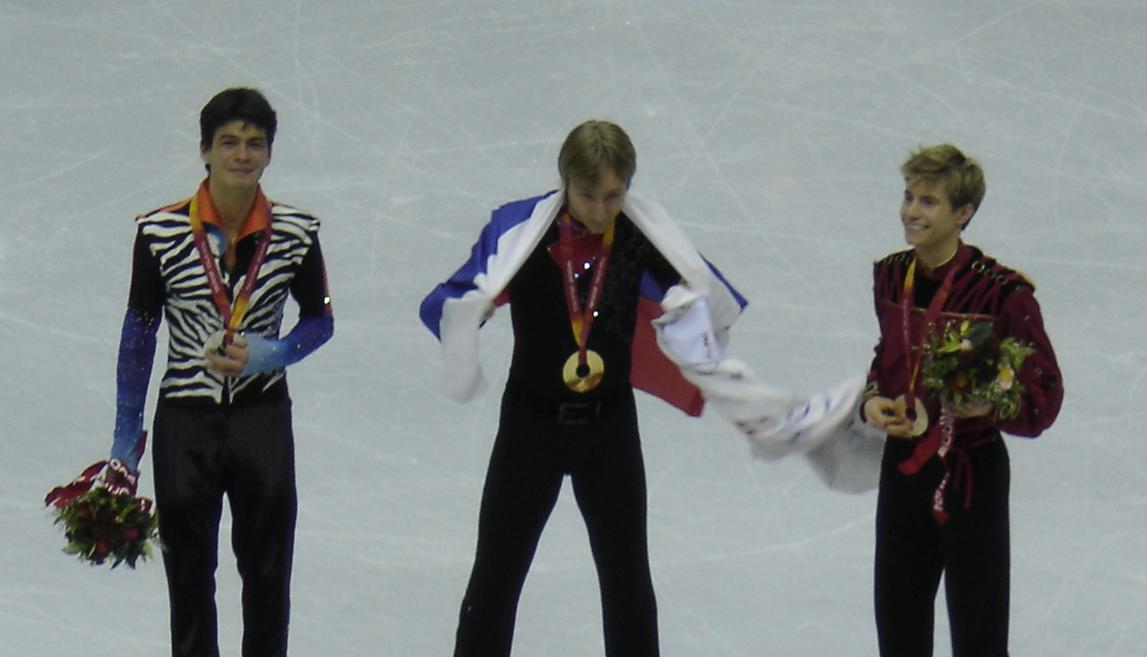 Picture of the medalists taken by myself after the medal ceremony in Torino Palavela.